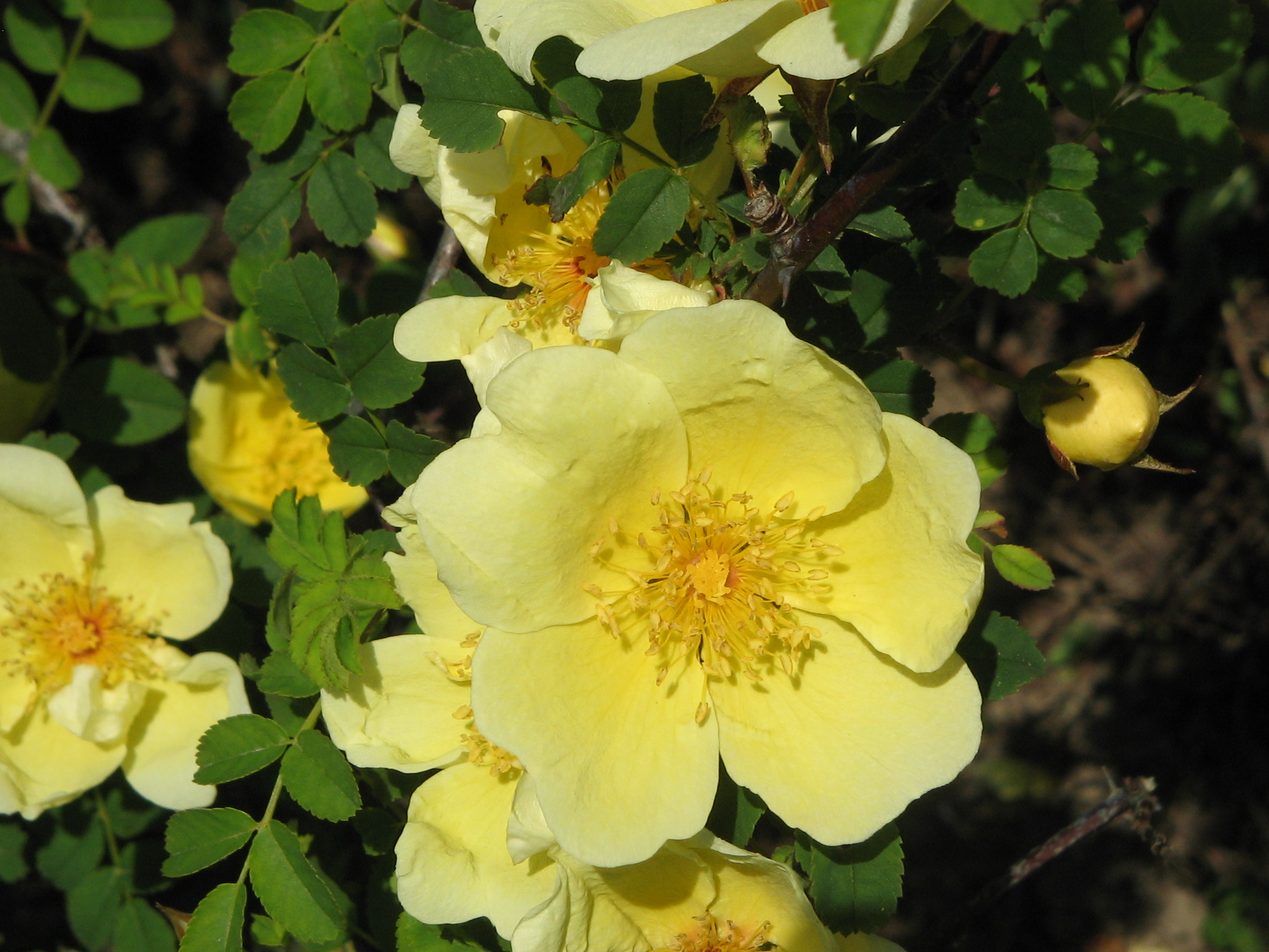 Rosa xanthina 'Canary Bird'